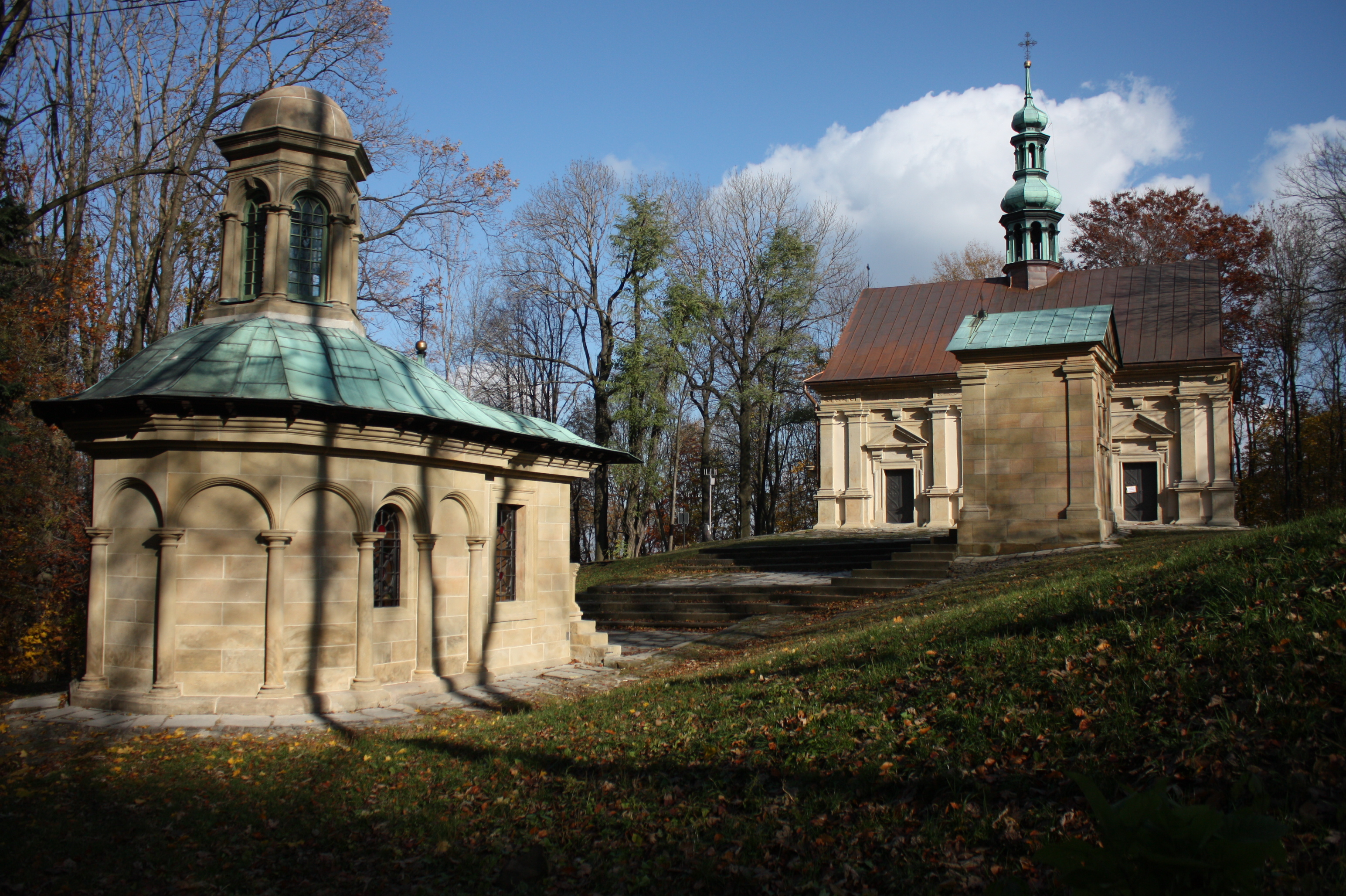 Kalwaria Zebrzydowska, Pathways of Passion of Christ, Chapels of Crucifixion, Deposition, and Entombment of Christ